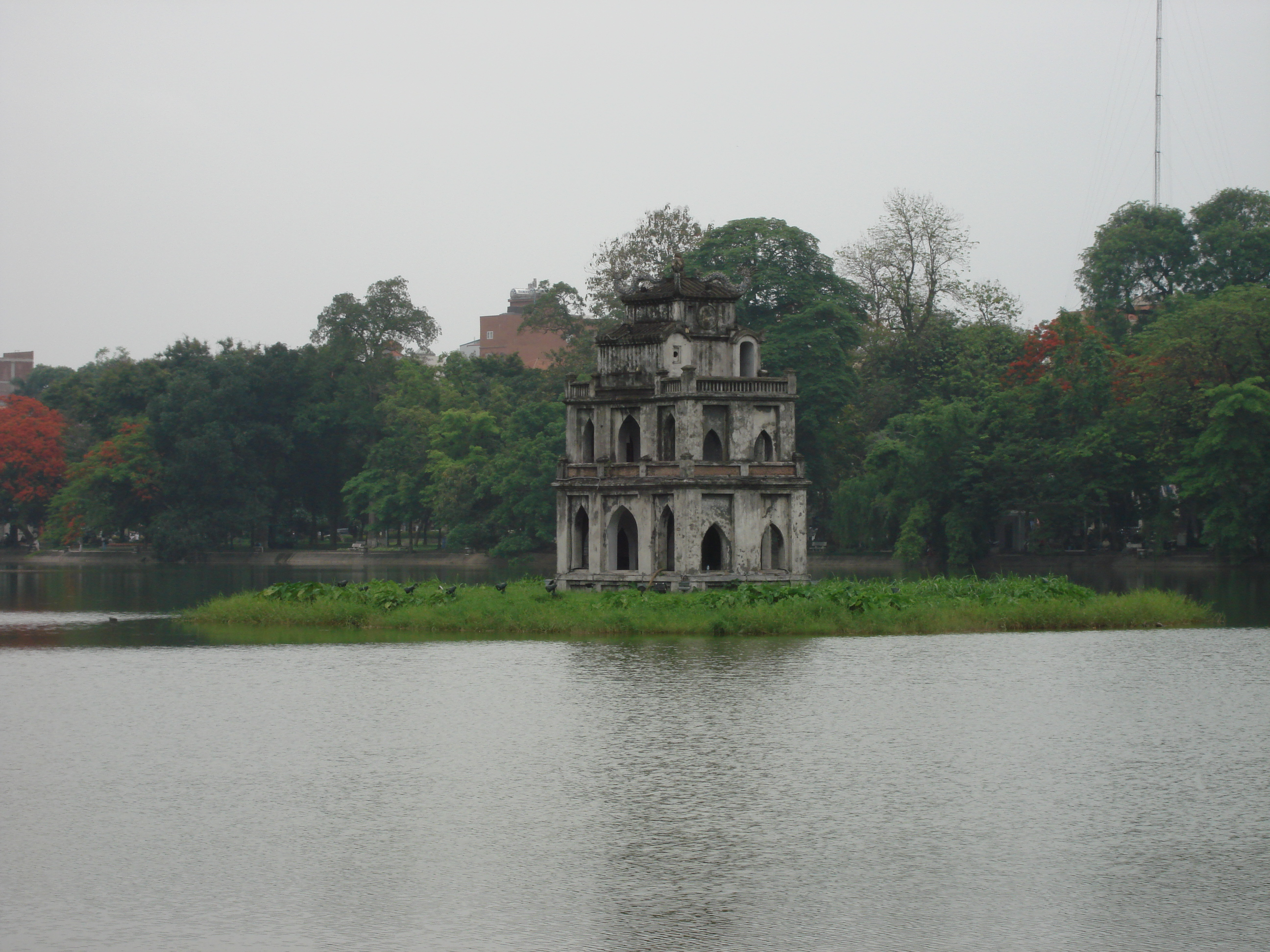 Thap Rua, or Tortoise Tower, is a three-storey pagoda located in the middle of Ho Hoan Kiem, in the middle of Hanoi. The Thap Rua was built in the 18th century, and is one of the most recognised landmarks in Hanoi.